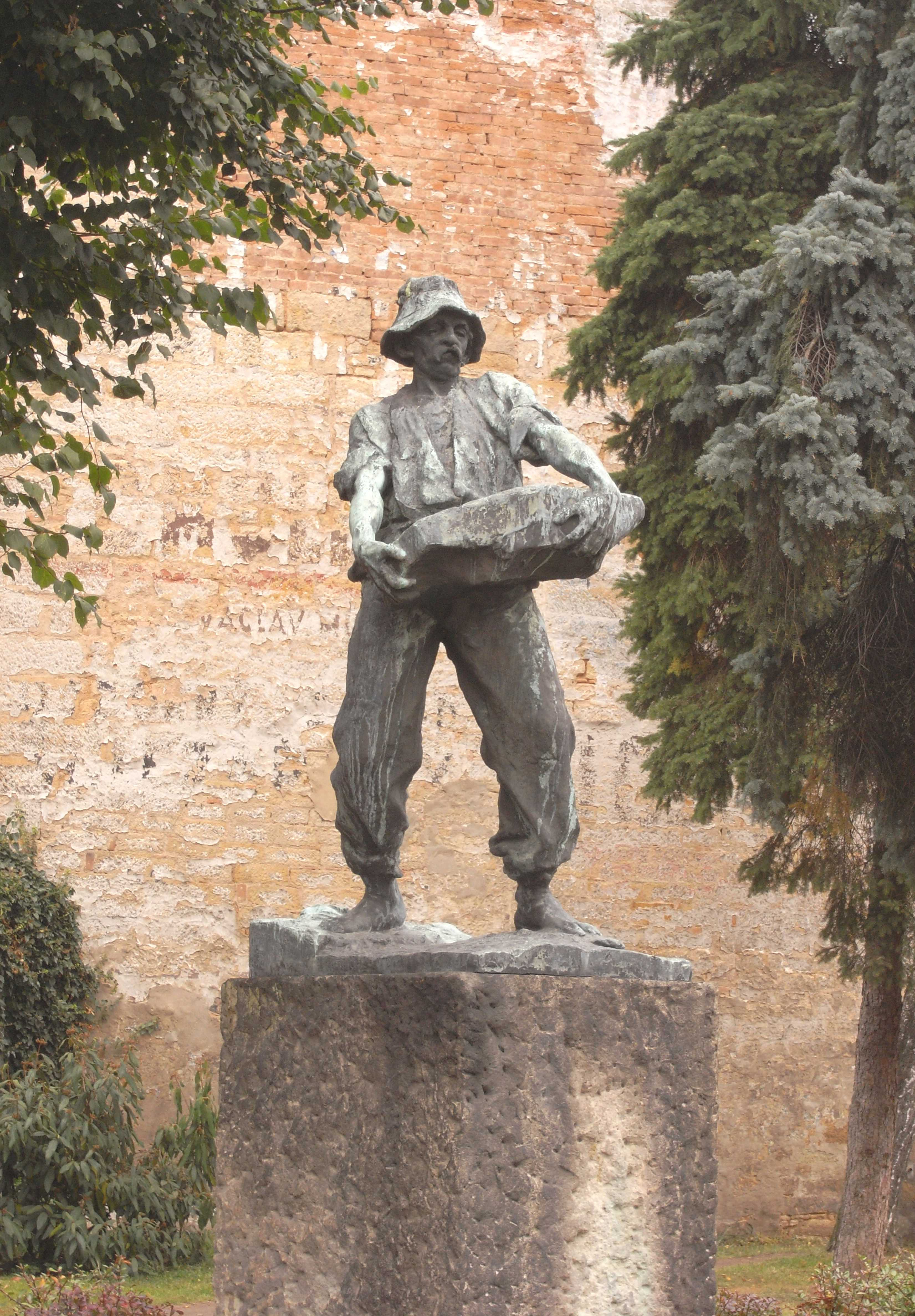 stoneworker monument of Hořice v Podkrkonoší (Czech Republic) bronze and sandstone, "Muž práce" Ladislav Šaloun, 1908, artif. foundry K. Bendelmayer, Prague VII